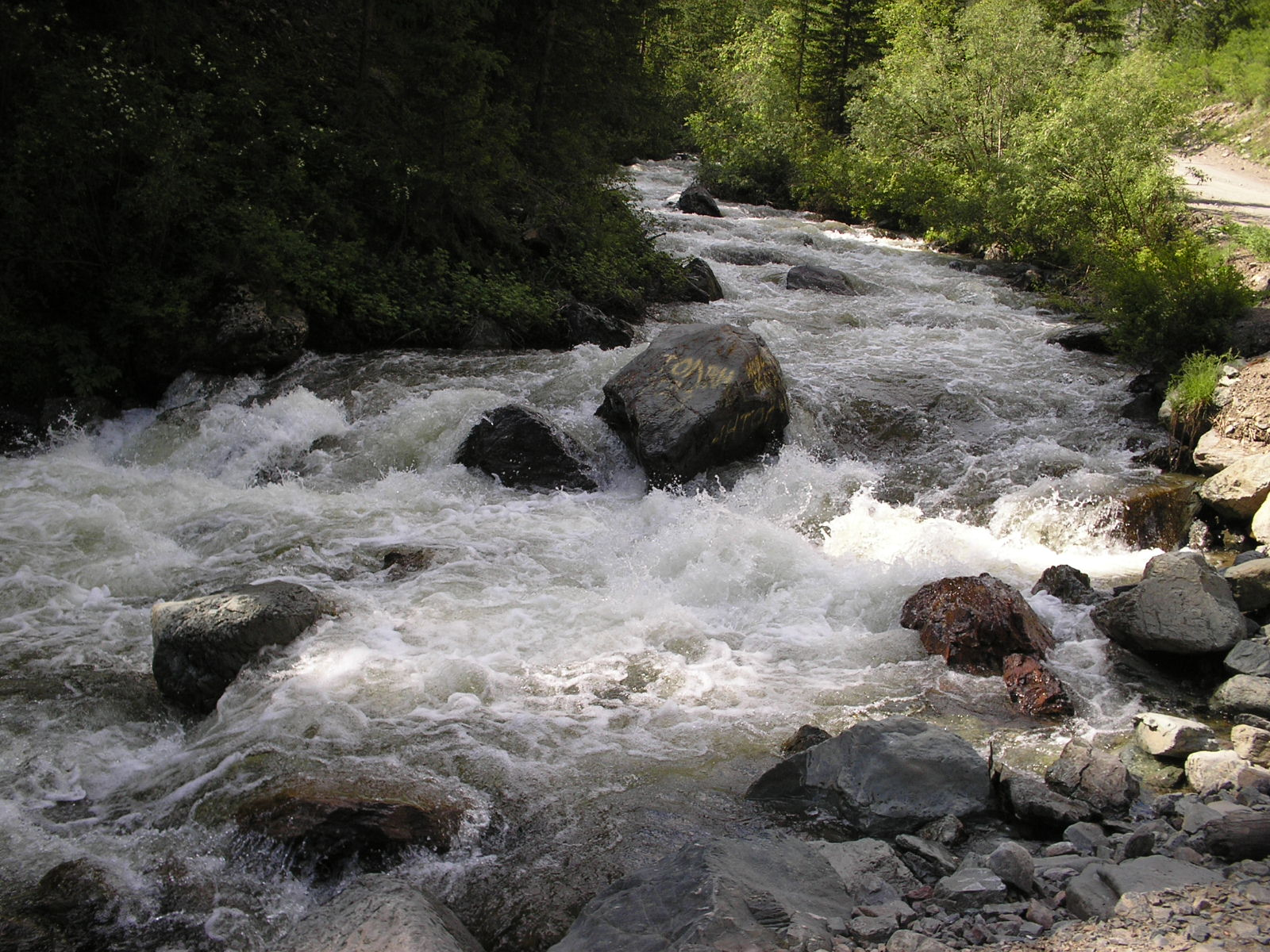 Chibitka River near Krasnye Vorota in Ulagansky District of the Altai Republic